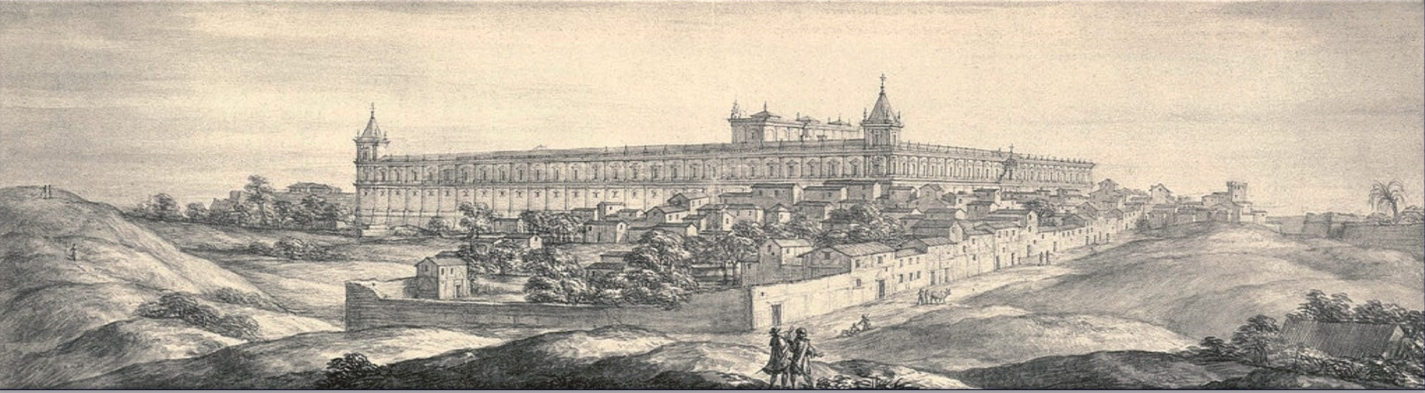 Hospital de las Cinco Llagas de Nuestro Redentor. Seville, Andalusia, Spain. Acuarela de Pier Maria Baldi.